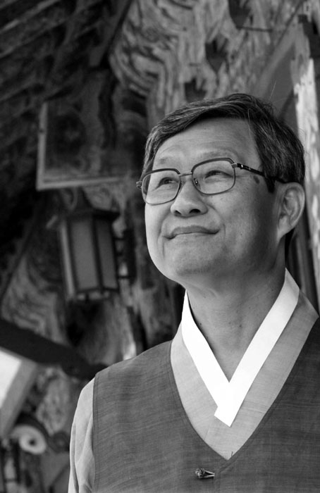 Kim Kwang-kyu